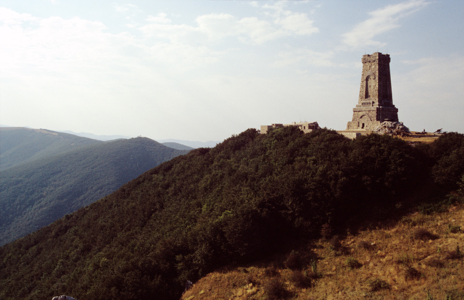 The Shipka Monument in Bulgaria